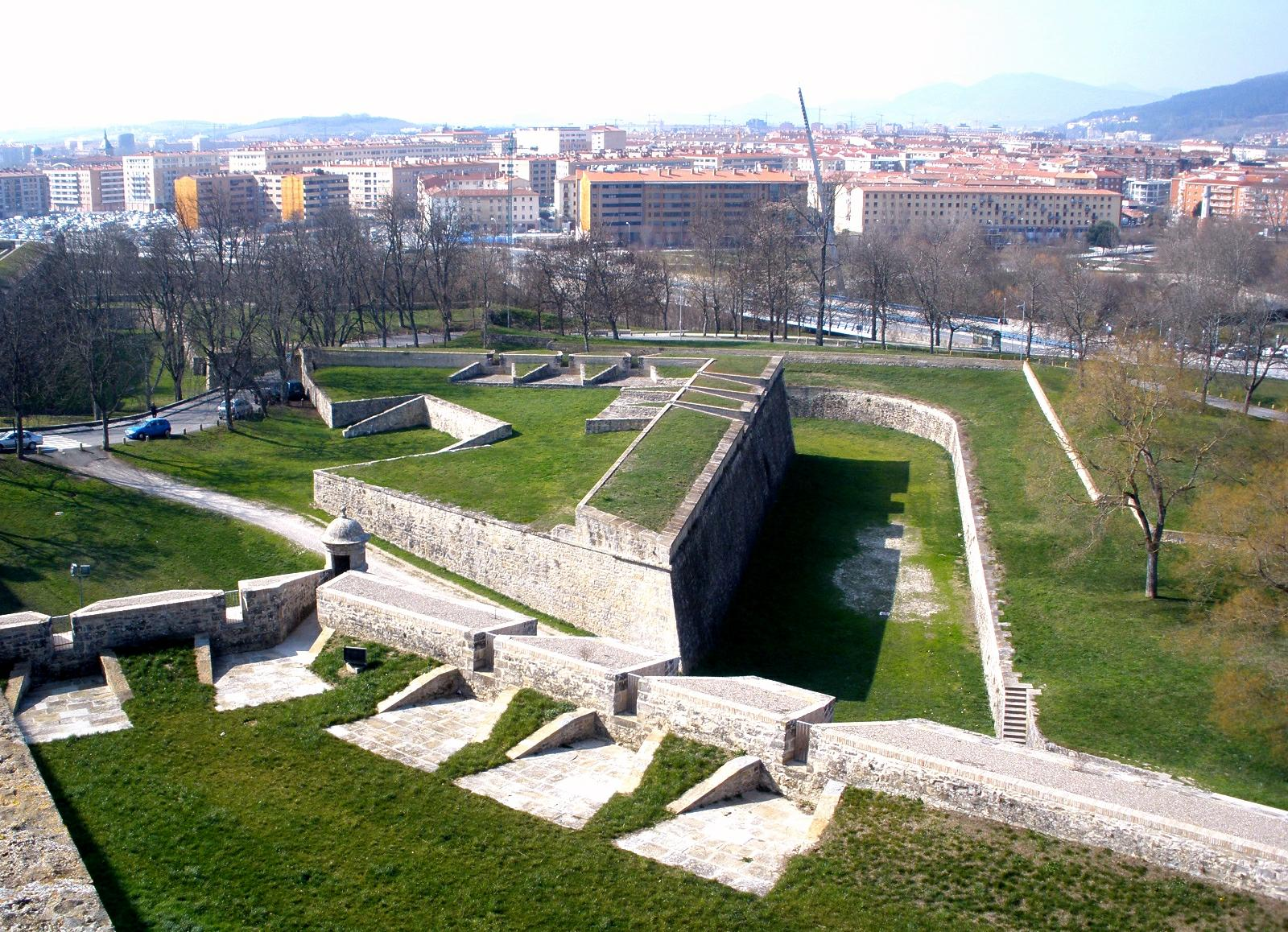 Baluarte del Redín, desde el mirador del Rincón del Caballo Blanco, en Pamplona (Navarra, España)